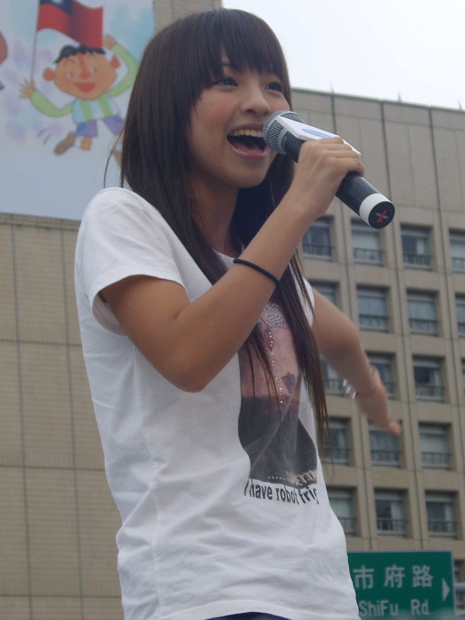 Cathy Shyu (Ring Hsu) participated 2007 Samsung Running Festival Taipei.